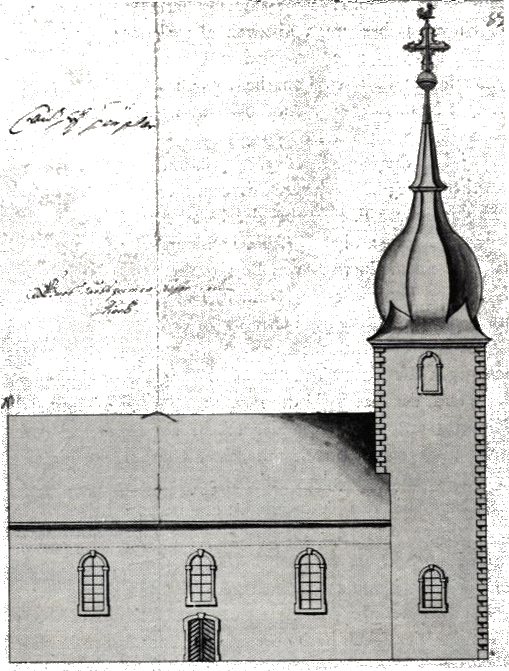 Church in Hirschberg-Großsachsen